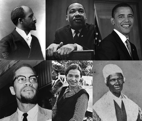 From Image:AfricanAmericans2.jpg. I created this image from the previous public domain image (see below) plus three public domain images of living African American leaders (C. Rice, first black female Sec. of State; C. Powell, first black Sec. of State/Chairman of Joint Chiefs; J. Jackson, first competitive major party candidate for Pres. of U.S. (1988)).